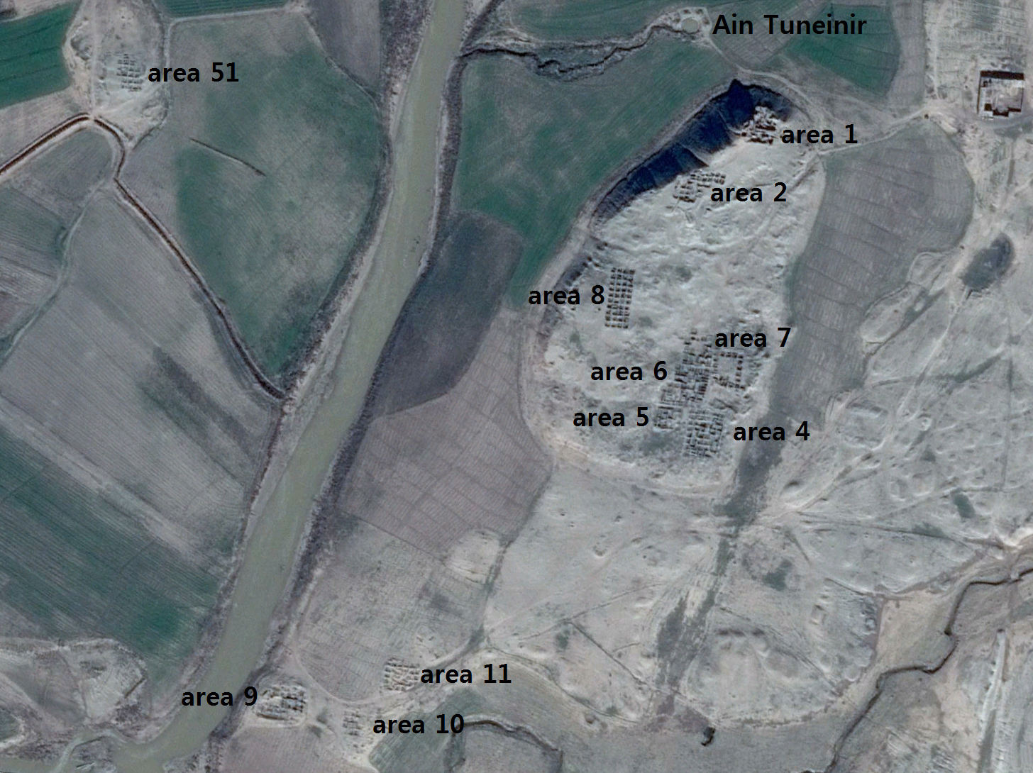 archaeological areas